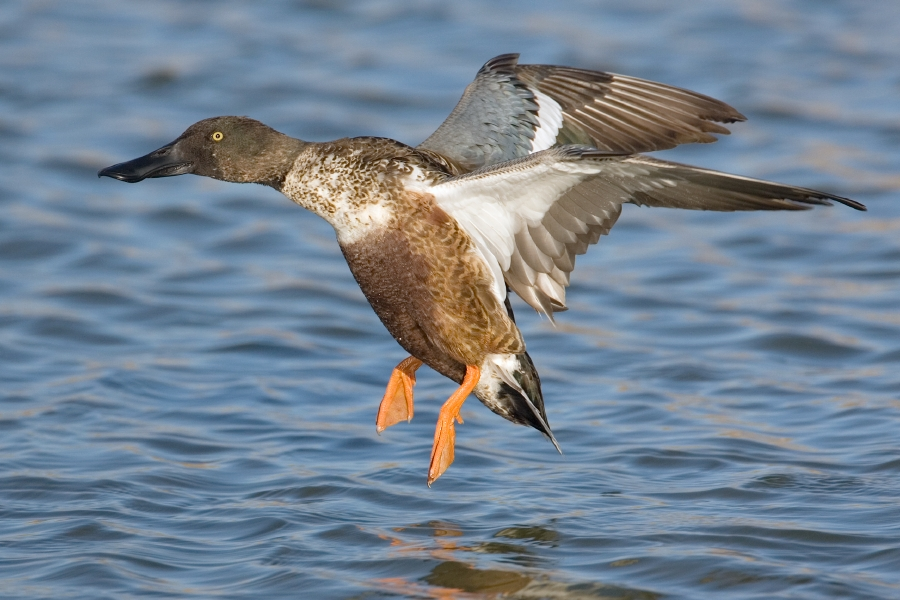 Northern Shoveler (Anas clypeata), Rockport, Texas